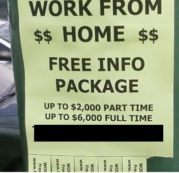 A work at home at placed on public property, with personal info blanked out